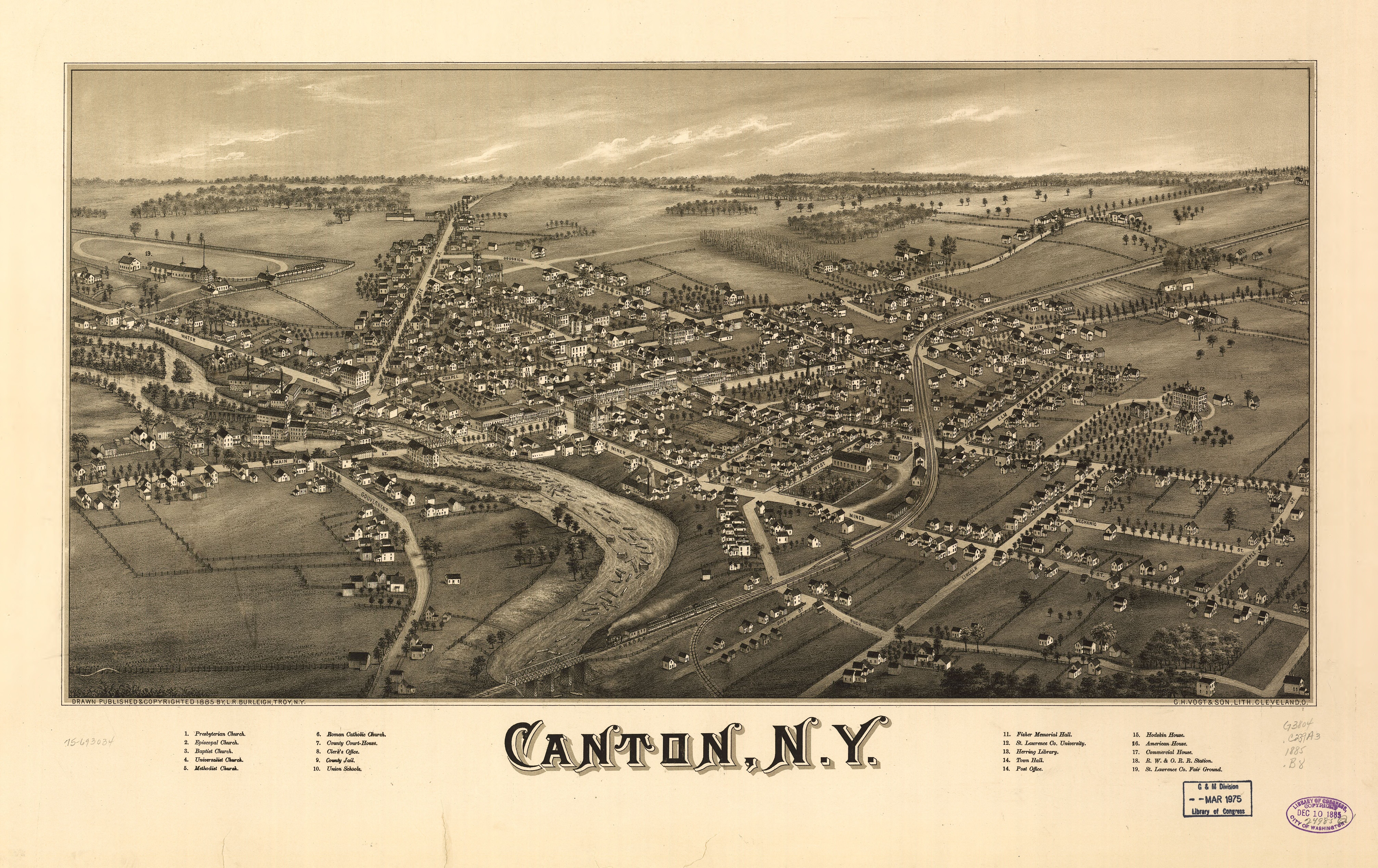 Perspective map not drawn to scale. Bird's-eye view. LC Panoramic maps (2nd ed.), 547 Available also through the Library of Congress Web site as a raster image. Indexed for points of interest. AACR2: 100; 651/1; 710